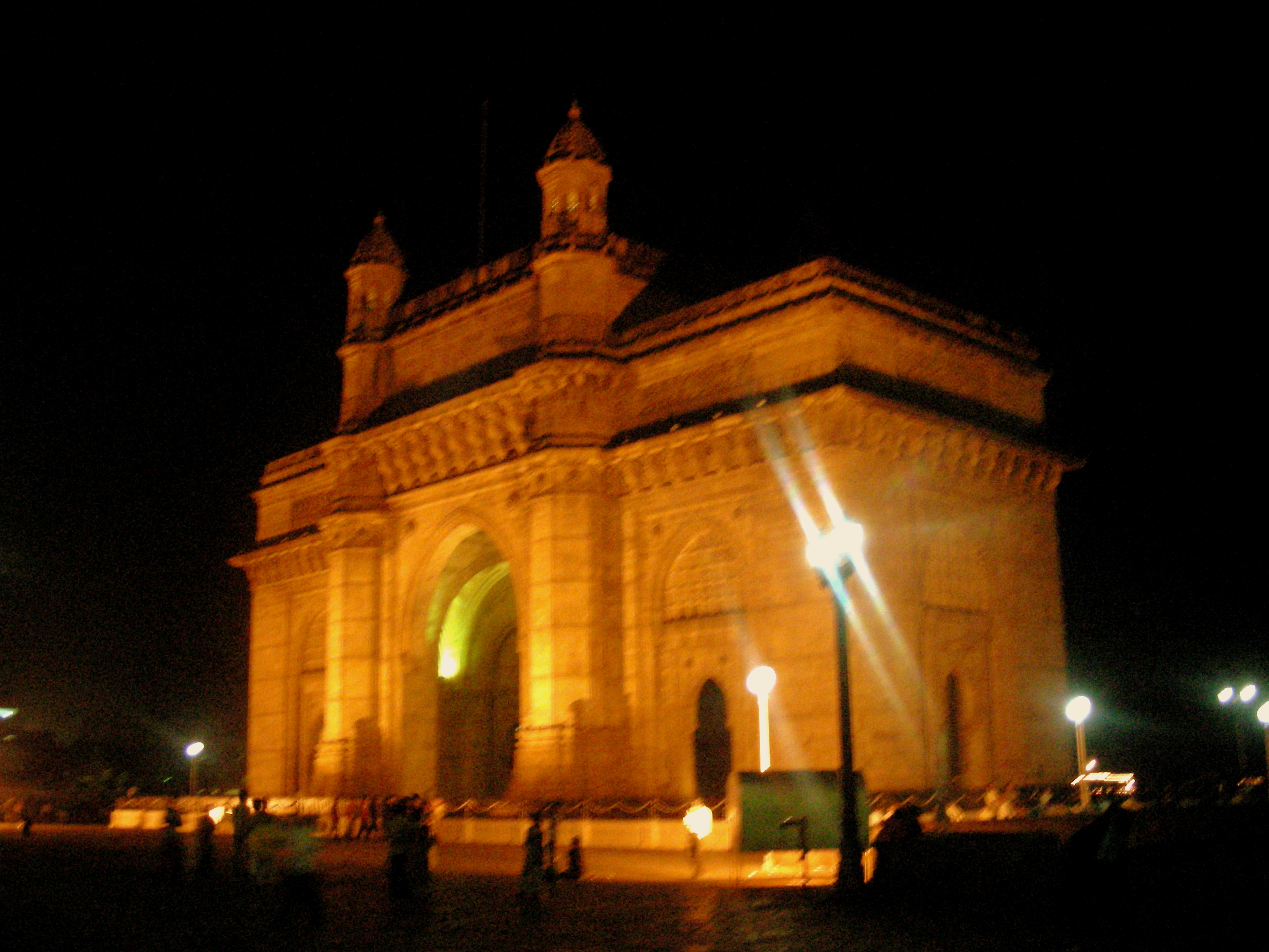 Gateway by night